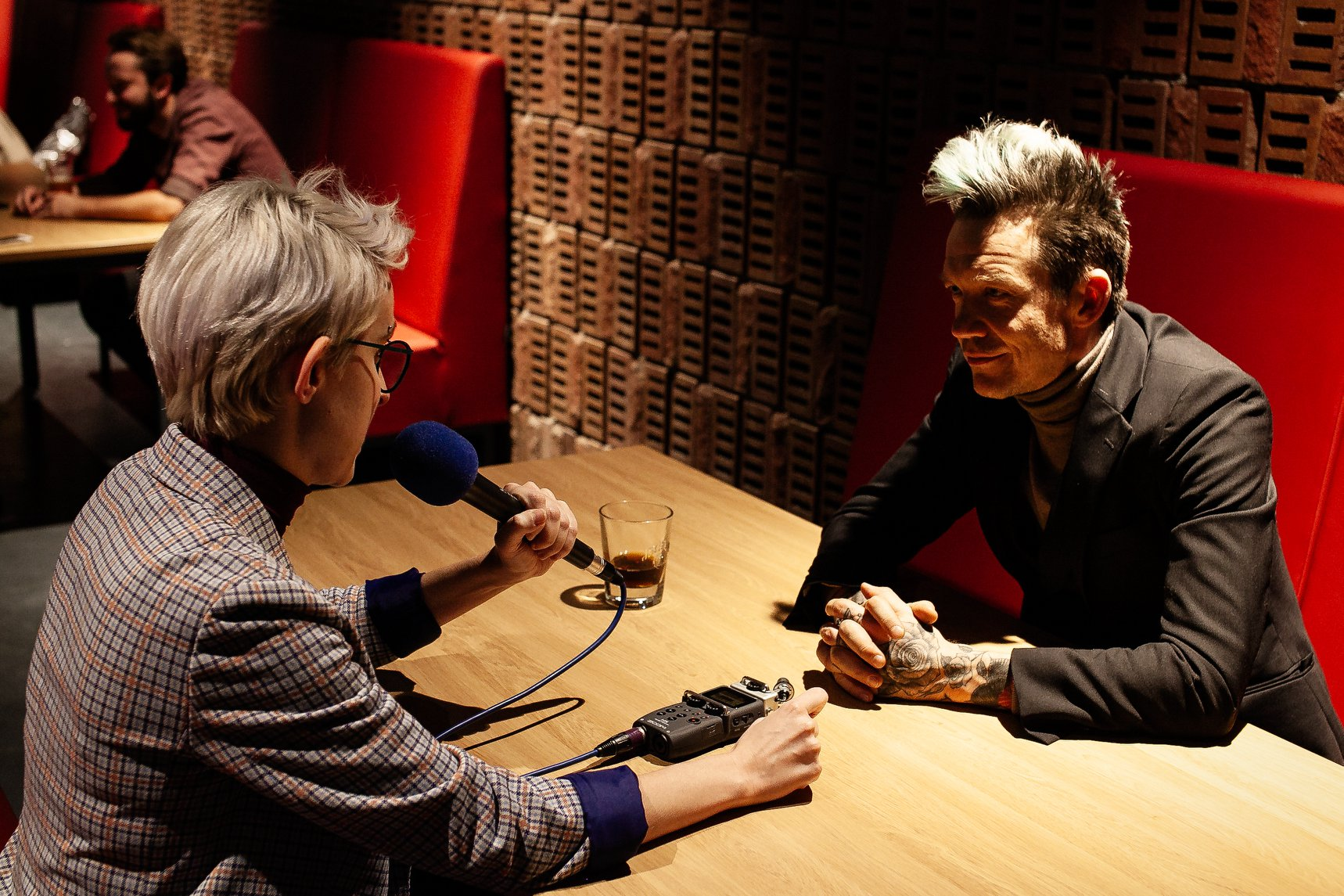 Mery Zimny is talking with Polish jazzman - Wojtek Mazolewski